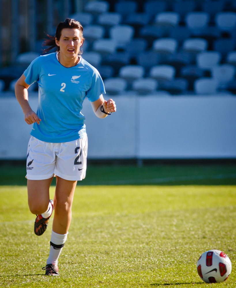 Hannah Bromley playing for the New Zealand women's national football team against Australia.